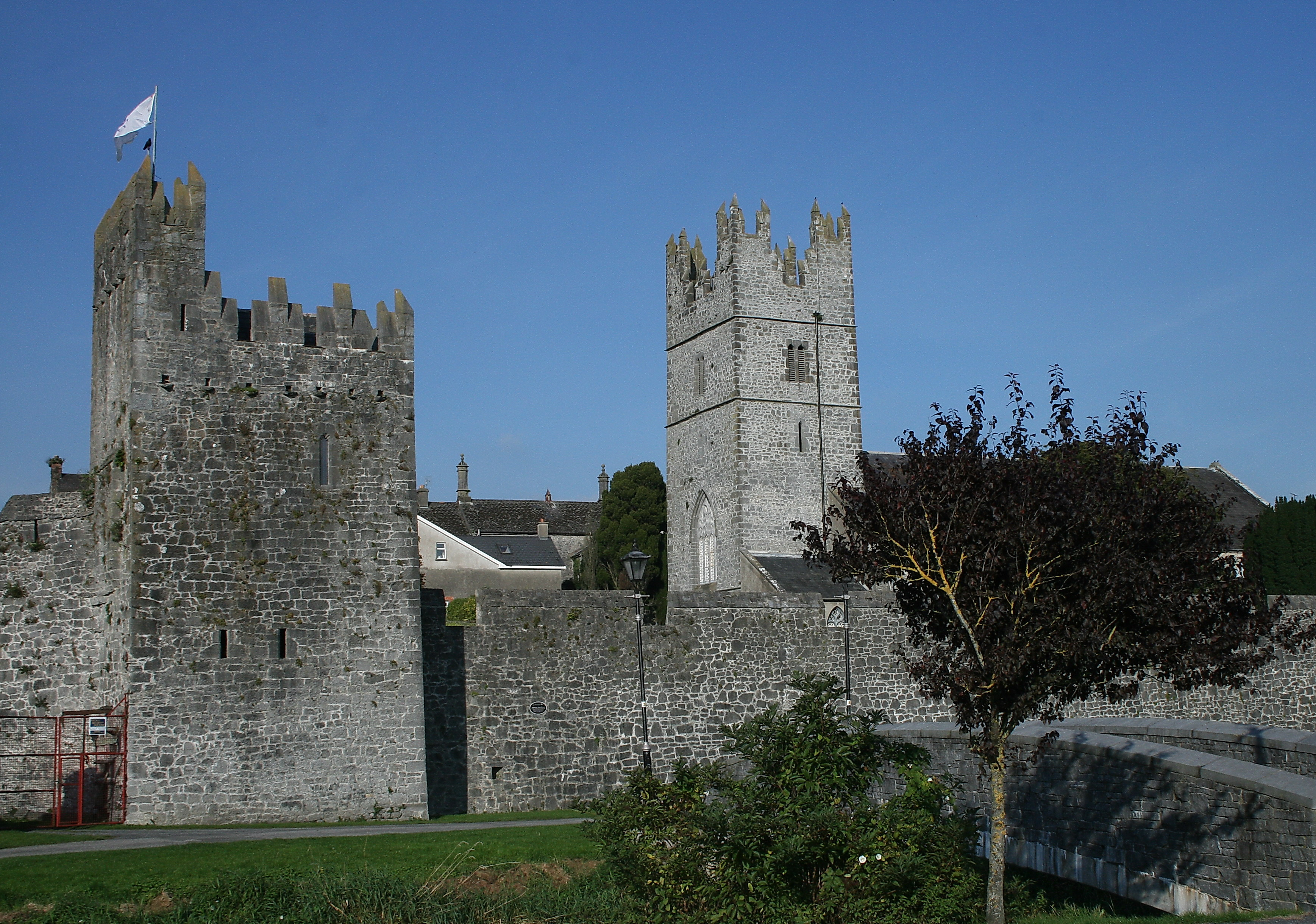 Fethard, County Tipperary, Ireland. Southern wall with tower-house and church.